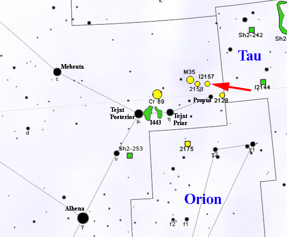 Map of IC 2157